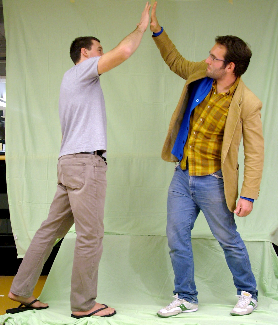 "Last weekend we got together and had a digital photo party, so we could all put people in our design drawings. Woo! "